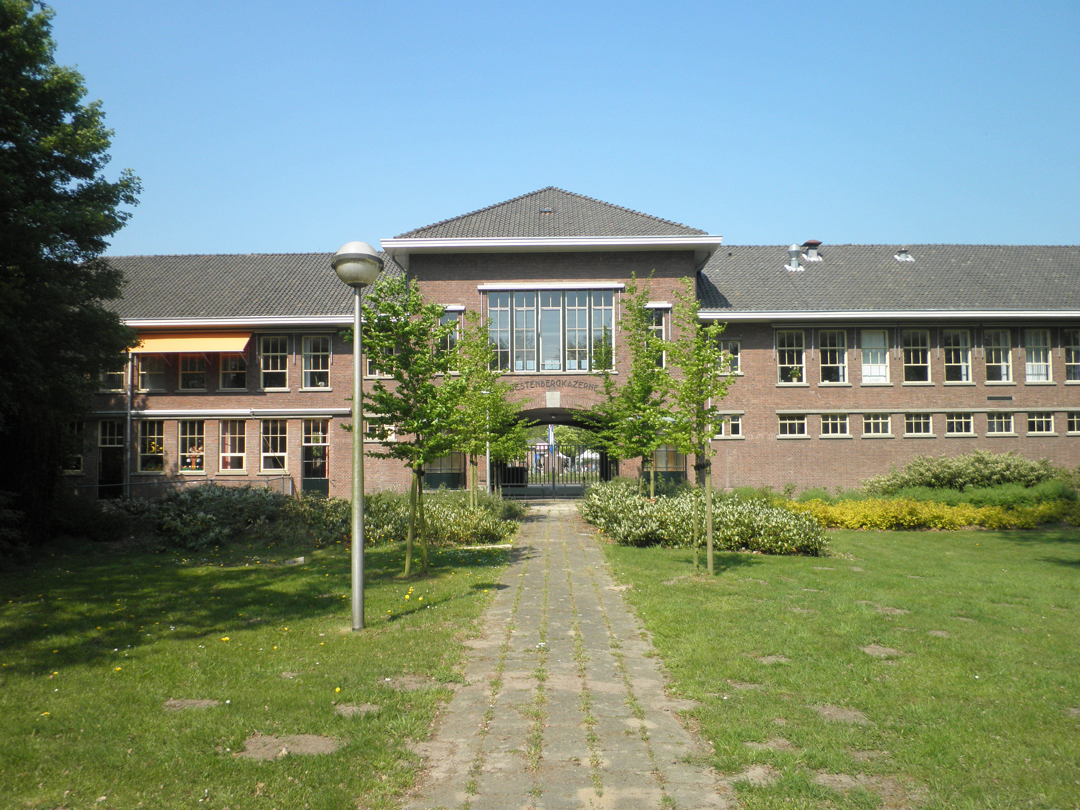 Original entrance of the former Westenberg Army Barracks.